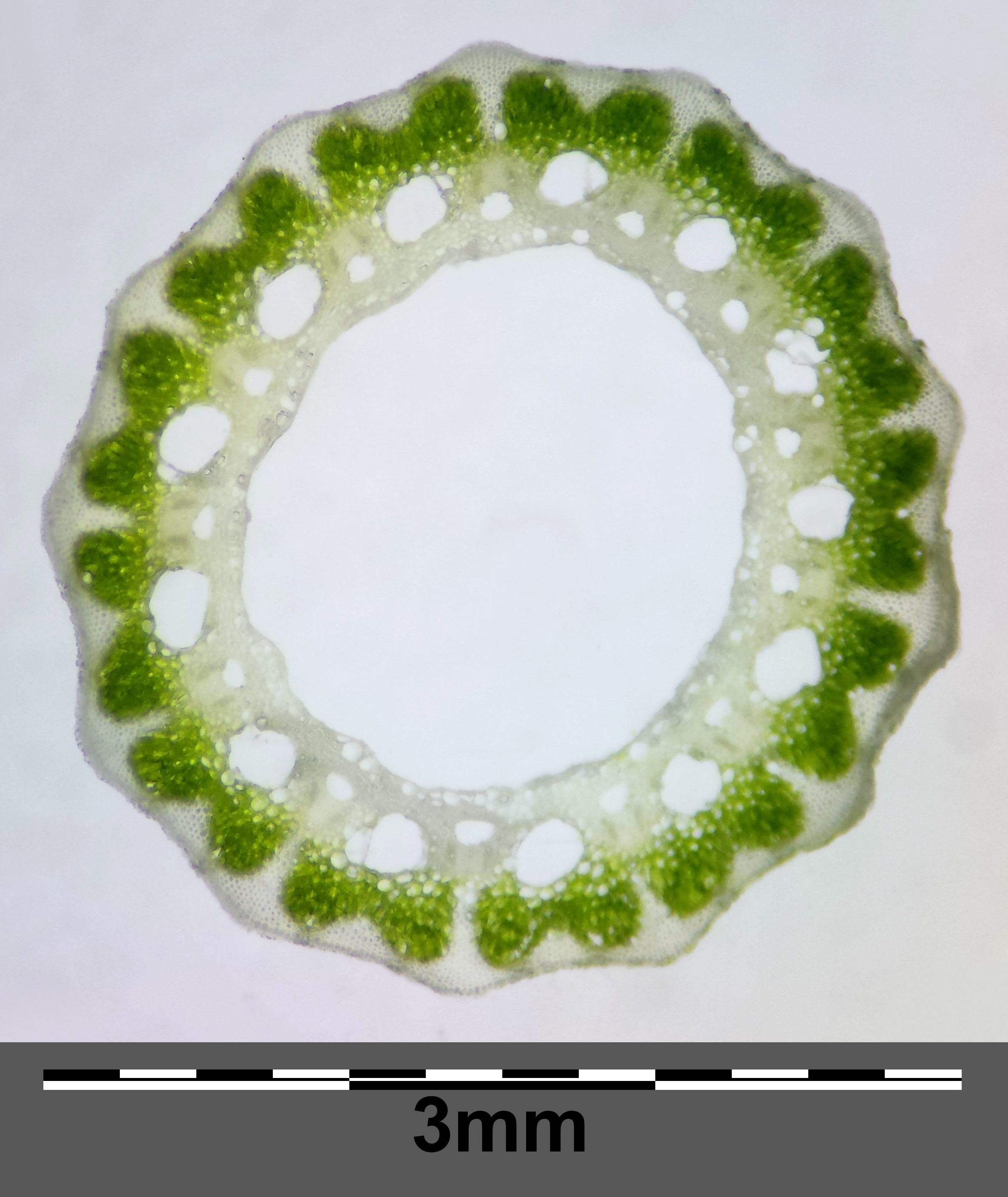 Cross section of stem Taxonym: Equisetum ramosissimum (subsp. ramosissimum) ss Fischer et al. EfÖLS 2008 ISBN 978-3-85474-187-9 Location: Floridsdorf rail station, Vienna-Floridsdorf - ca. 160 m a.s.l. Habitat: ballast